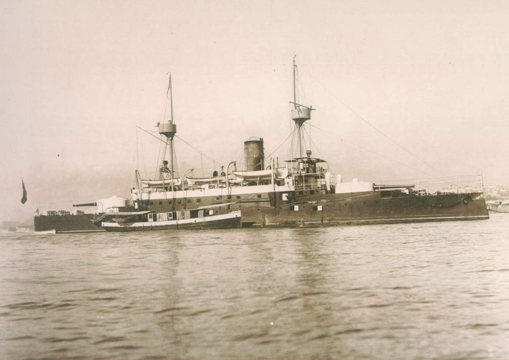 Brazilian coastal defence ship Deodoro (launched 1898)